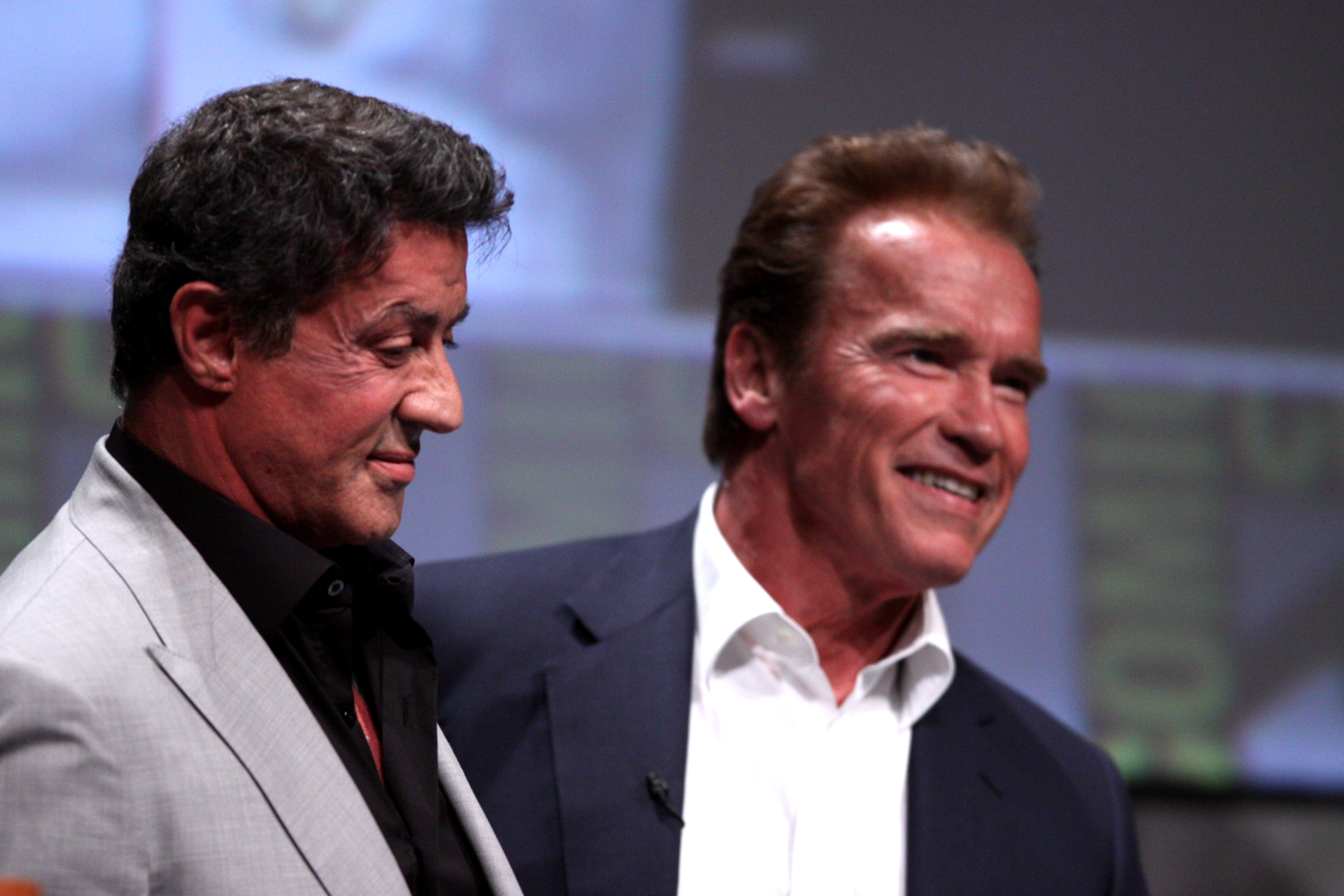 Sylvester Stallone & Arnold Schwarzenegger speaking at the 2012 San Diego Comic-Con International in San Diego, California.